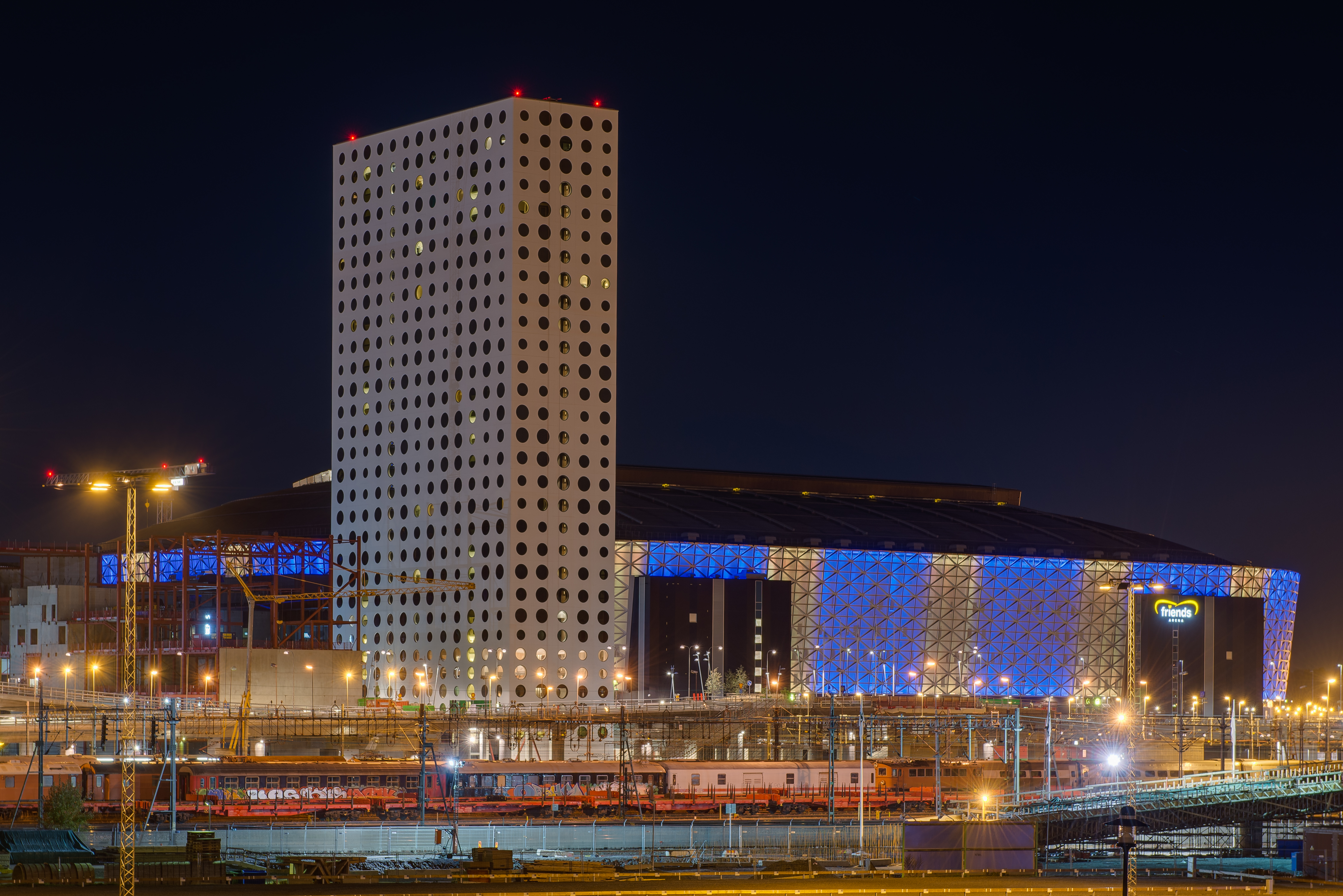 Friends Arena and the new Quality Hotel Friends at night, seen from Frösunda. Exposure fusion from 3 exposure.